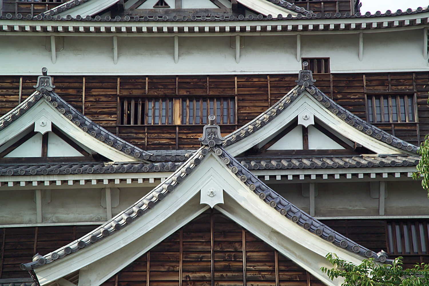 Hiroshima Castle, Hiroshima, Japan. I took this photo.